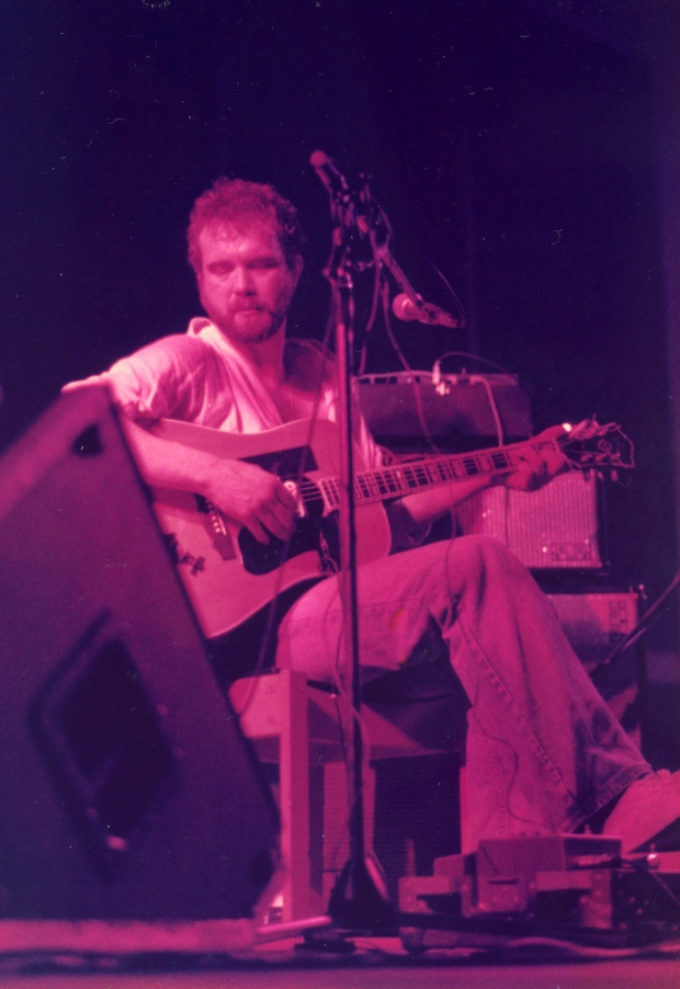 John Martyn playing Bristol University Students' Union, 1978